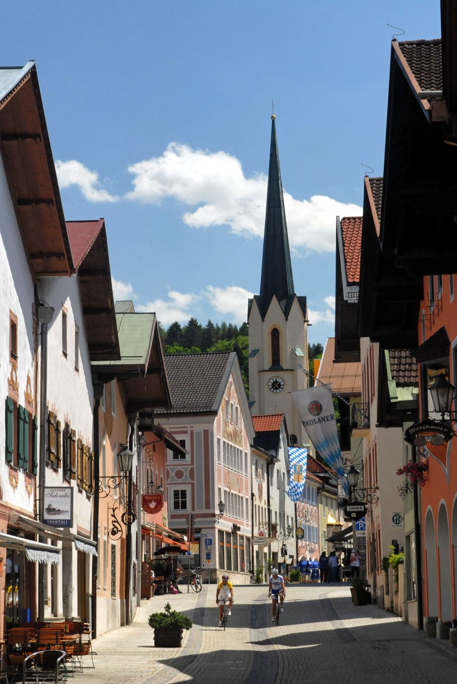 Garmisch-Partenkirchen, street "Ludwigstrasse", Western Side